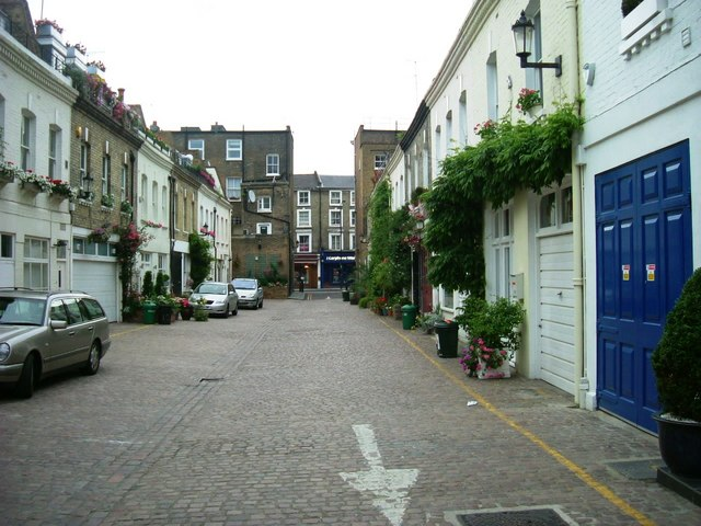 Spear Mews, SW5 Looking towards Earls Court Road.